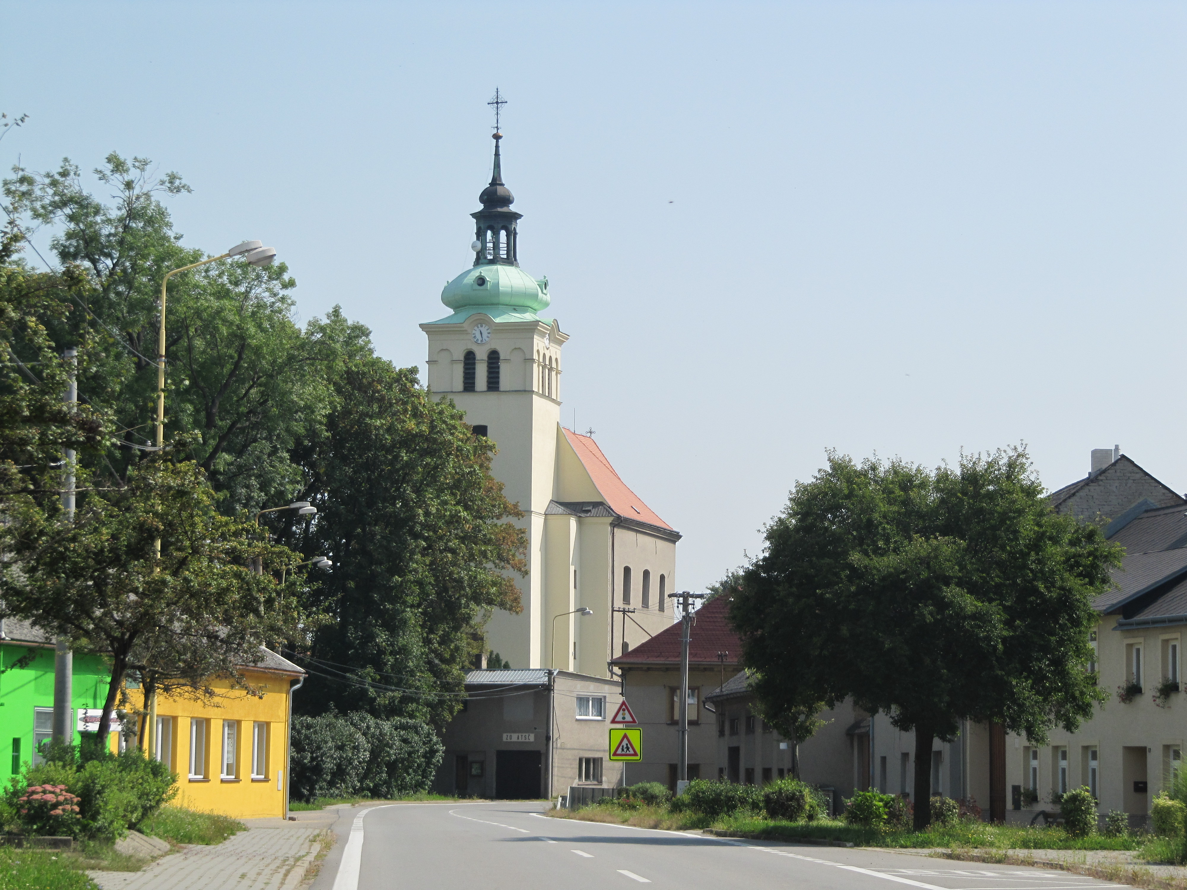 Rokytnice, Czech Republic, Přerov District. Church of St. James the Greater. This photograph was taken within the scope of the third year of the 'Czech Municipalities Photographs' grant.